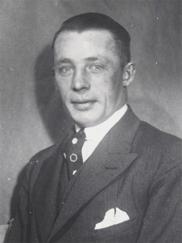 Portret of Jan de Rapper